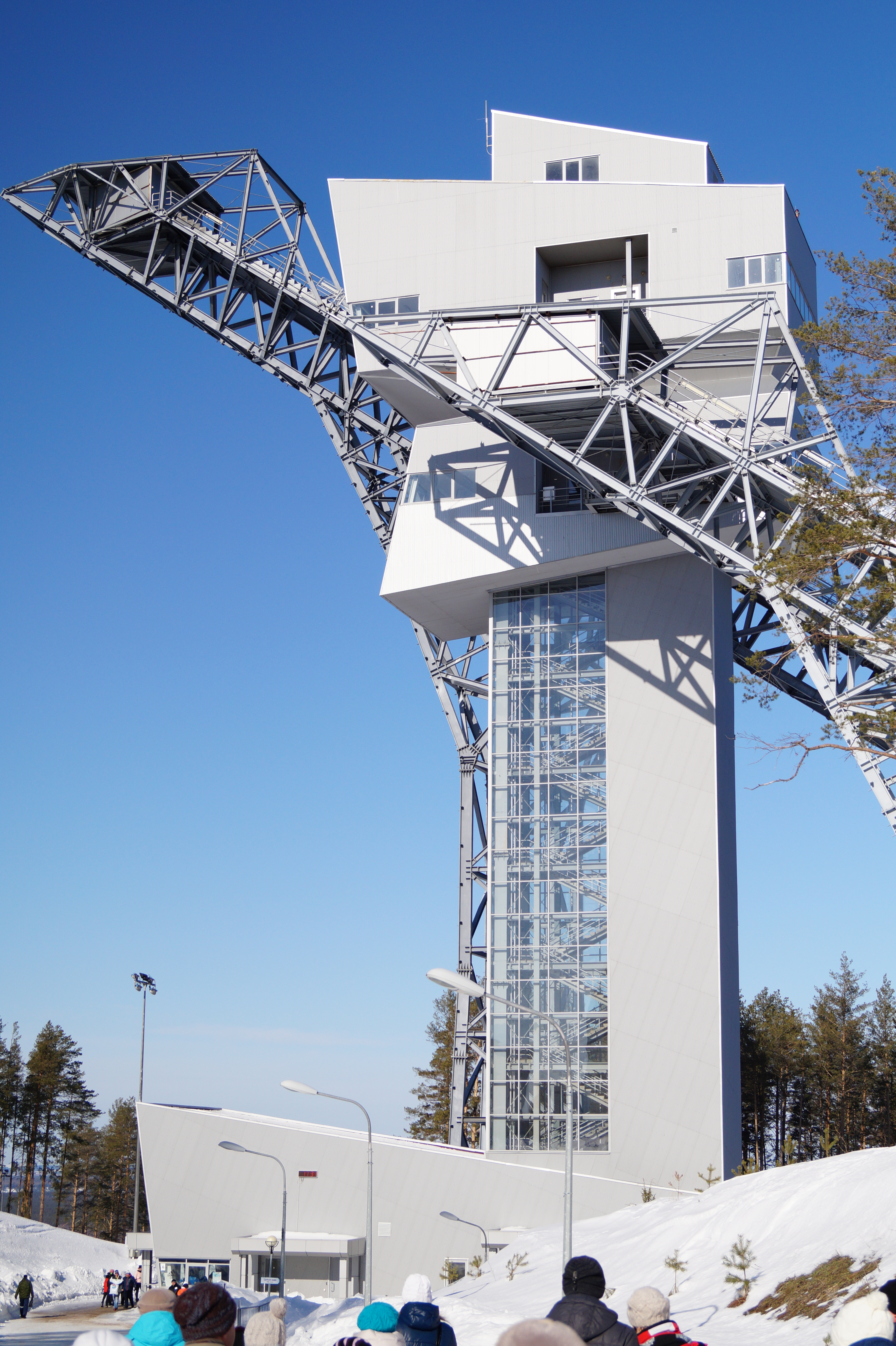 Snezhinka Ski Center tower of 125K and 95K hills